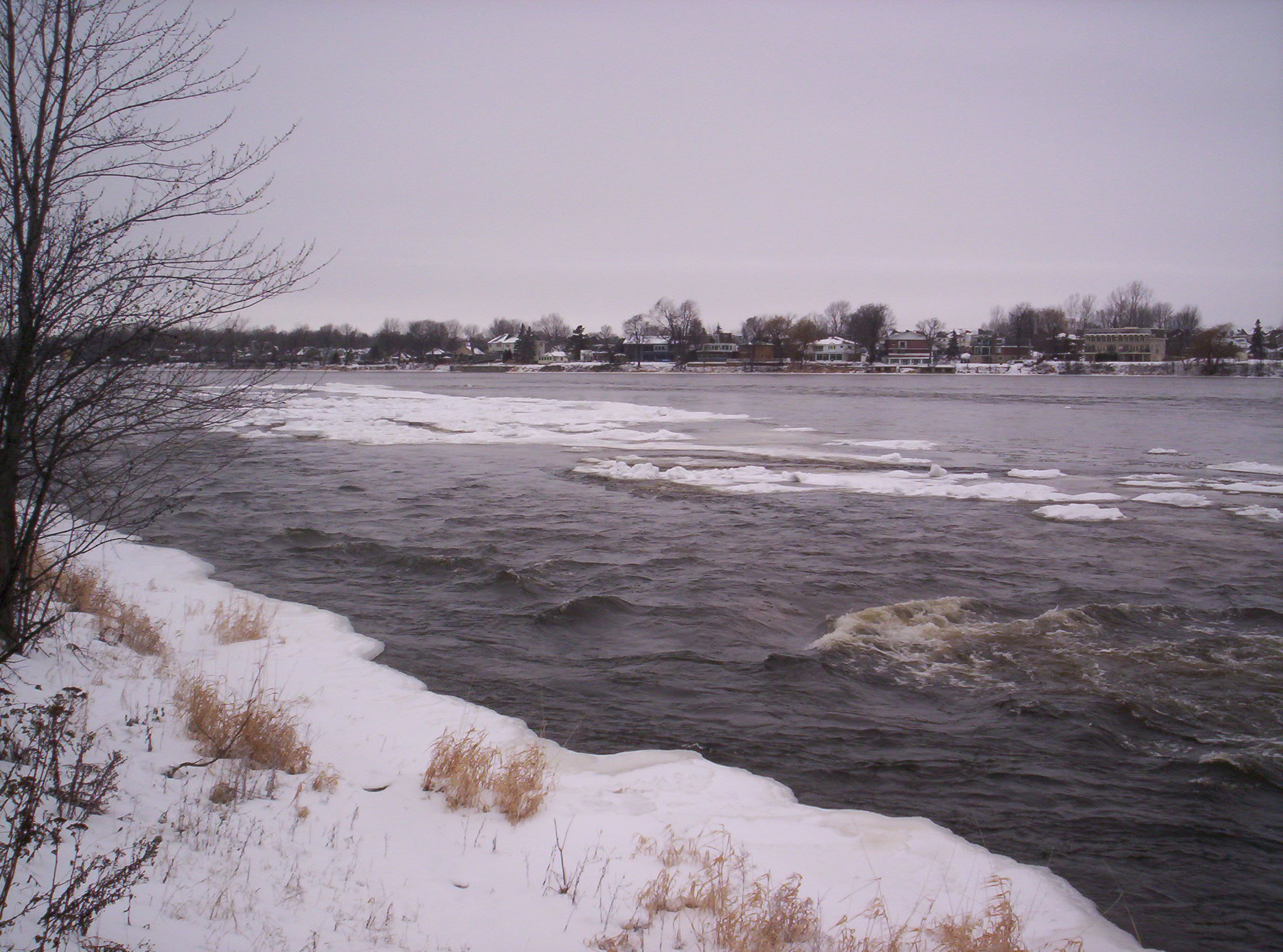 Cheval Blanc rapids in winter. Pierrefonds-Roxboro, Quebec, Canada